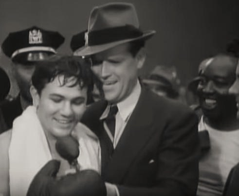 John Garfield (left) & Sam McDaniel (right) in They Made Me a Criminal - cropped screenshot